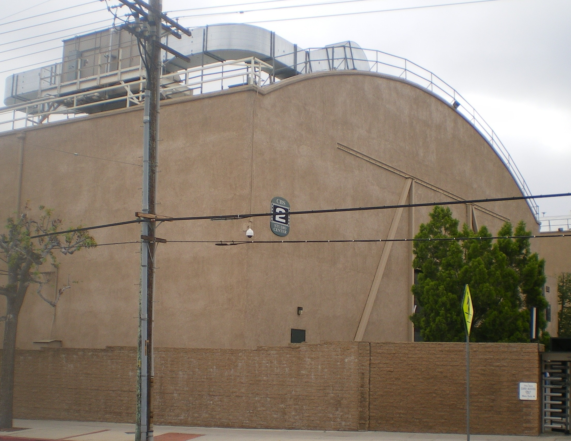 CBS Studio Center, Soundstage 2, Radford, north of Ventura, Studio City, Los Angeles, CA Radford, north of Ventura Blvd., Studio City, Los Angeles, CA